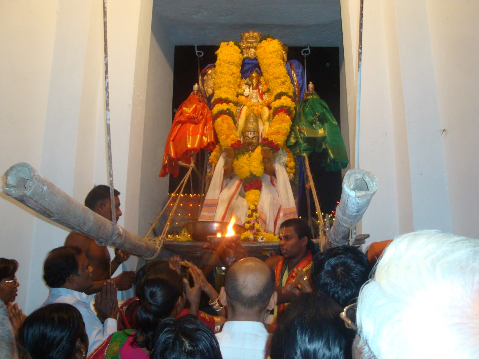 This Is Very Famous Ranganayakula Swami Temple in Addanki